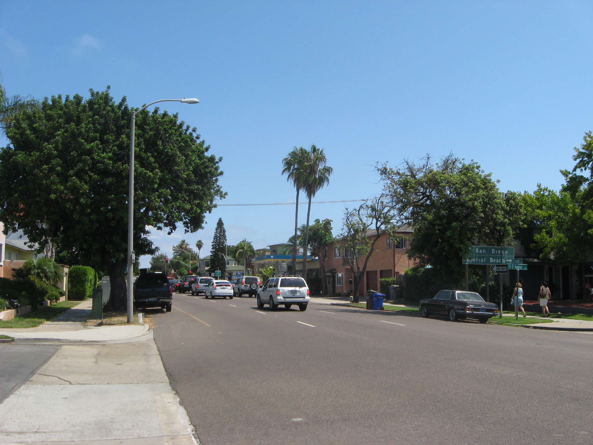 SR 282 eastbound at the eastern terminus in Coronado.